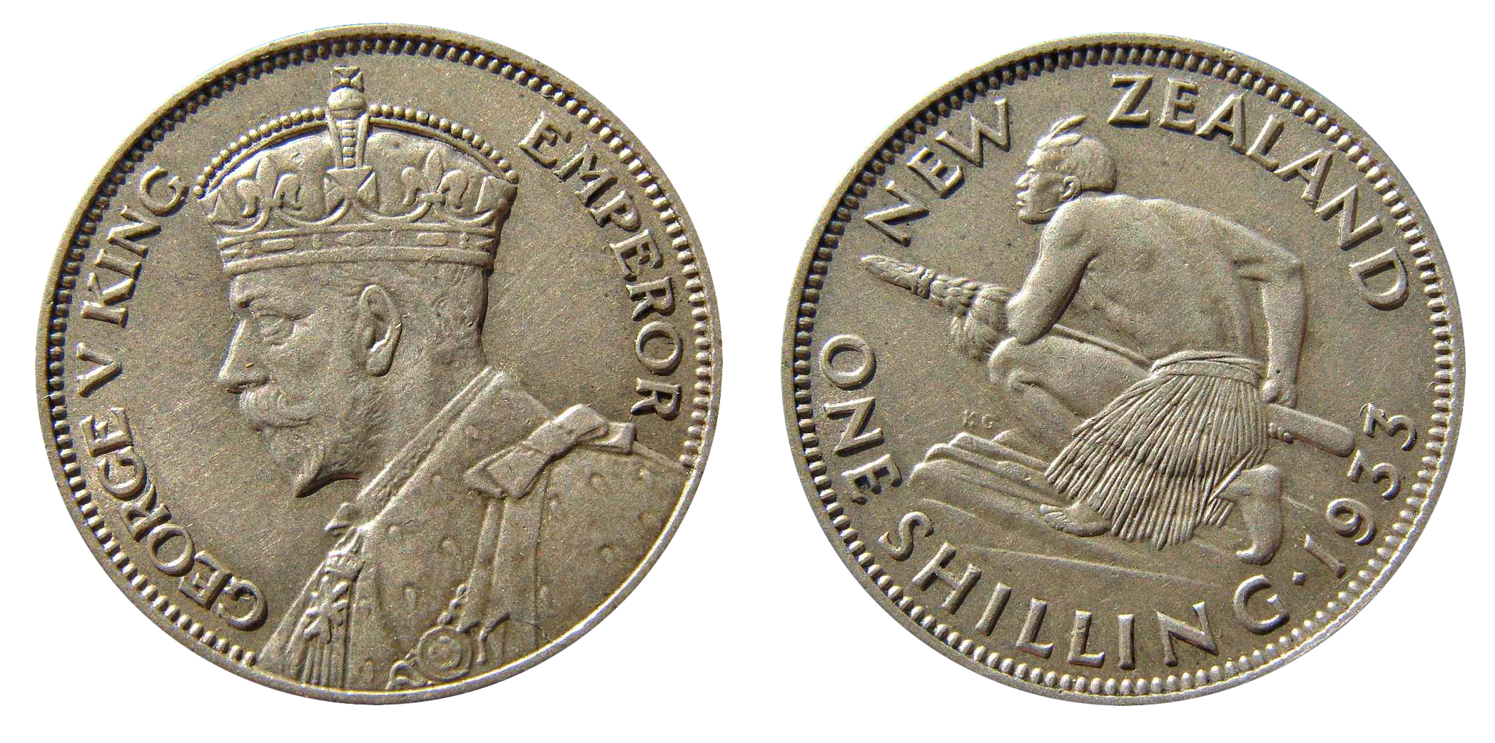 1933 NZ Silver Shilling. UNC. George V 1910- 1936 Crowned bust l., surrounding : "GEORGE V KING EMPEROR" / Maori holding Taiaha l., surrounding : "NEW ZEALAND ONE SHILLING 1933". KM 3. Medallist: KG (George Kruger Gray), 1880 London - 1943 Chichester, England. This coin comes in a rare condition : UNCIRCULATED MS60+, light toning.